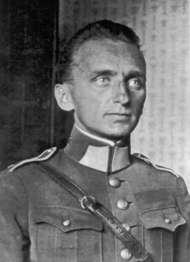 Karel Mareš (1898-1960) was a Czech pilot of the World War II. He was first commander of No. 311 Squadron RAF. Pictured as an officer of the Czechoslovak Army in 1918.